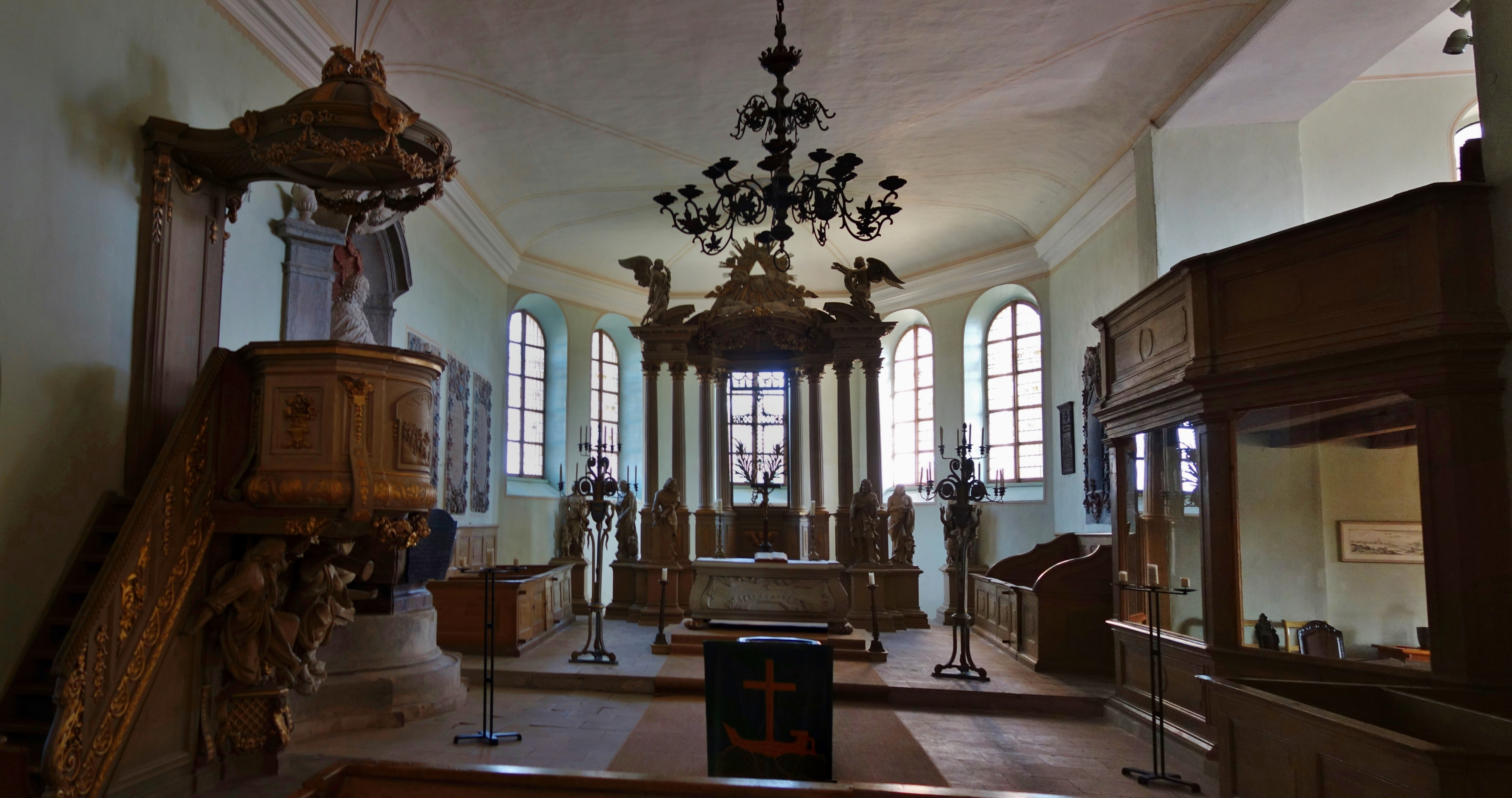 Eastern interior of St. Mary's Church on the Hill in Boitzenburg, Boitzenburger Land municipality, Uckermark district, Brandenburg state, Germany.